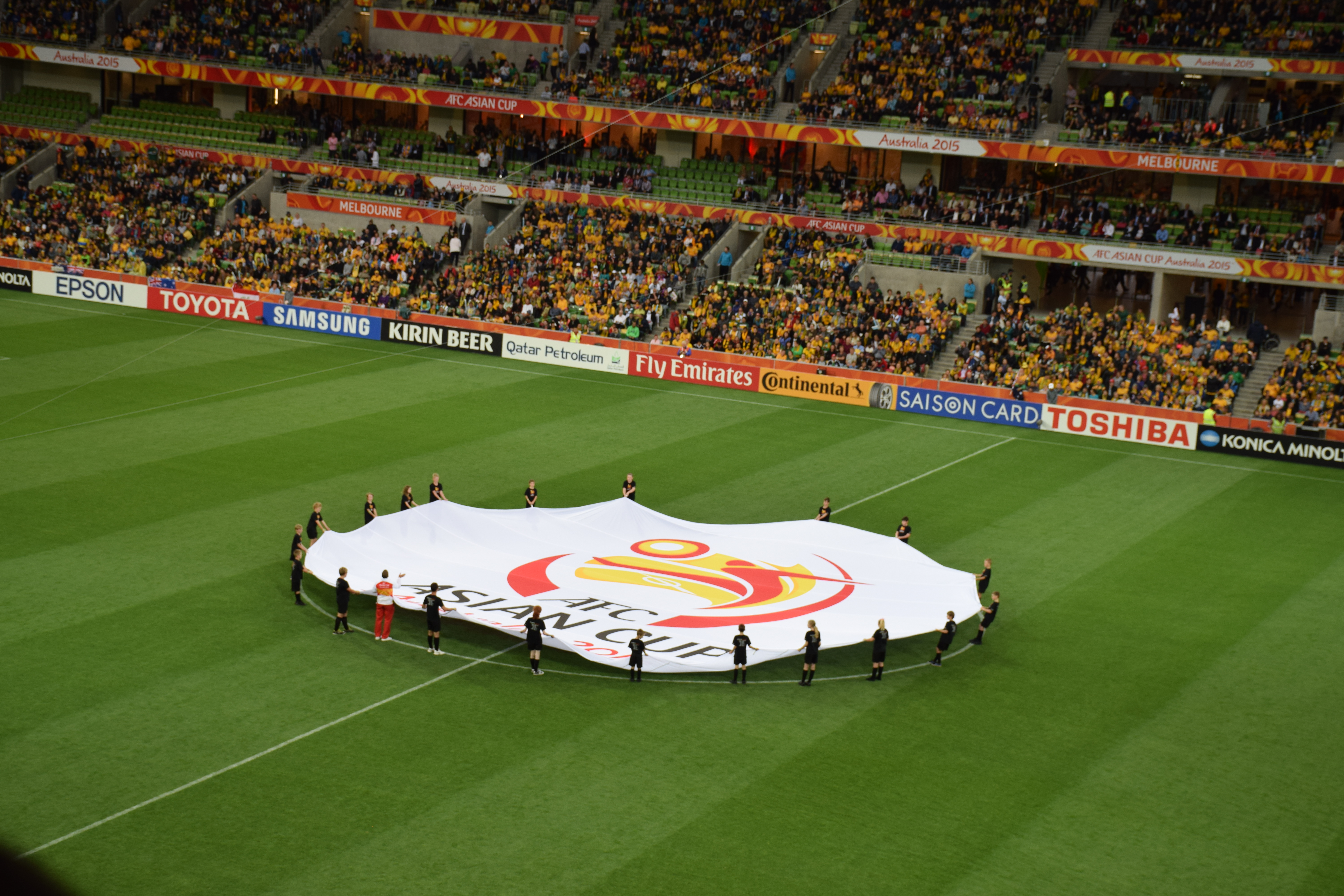 2015 AFC Asian Cup opening match Australia Kuwait, 9 January 2015